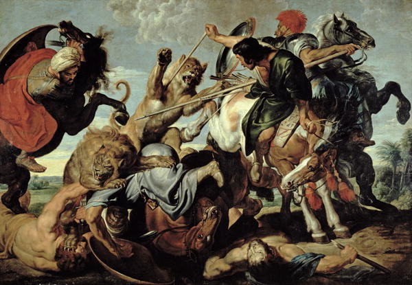 A Lion Hunt, copy from a painting of Peter Paul Rubens lost in 1870 in a fire. Private collection.